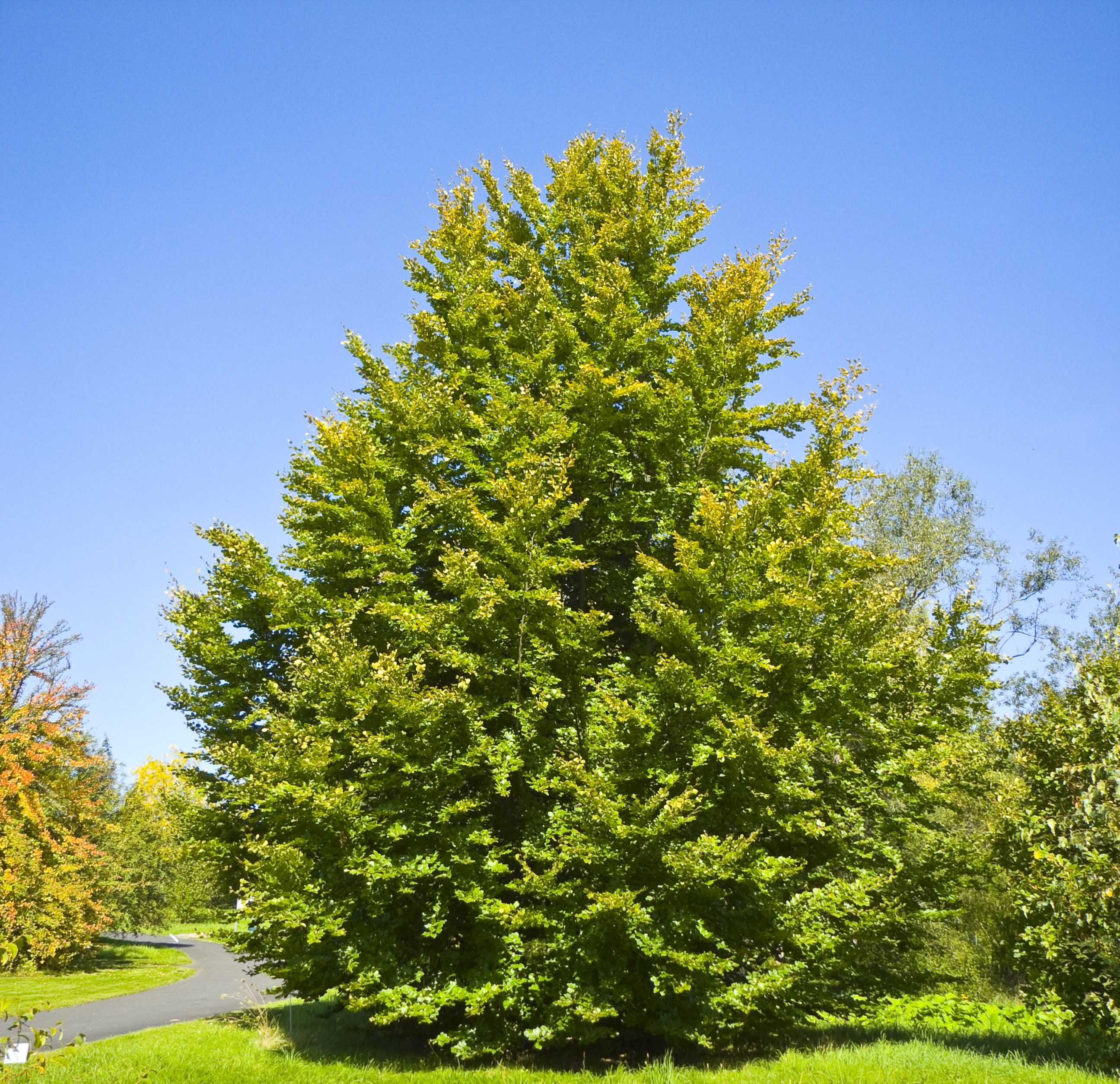 European Beech (Fagus sylvatica) in the New Botanical Garden Marburg, Hesse, Germany